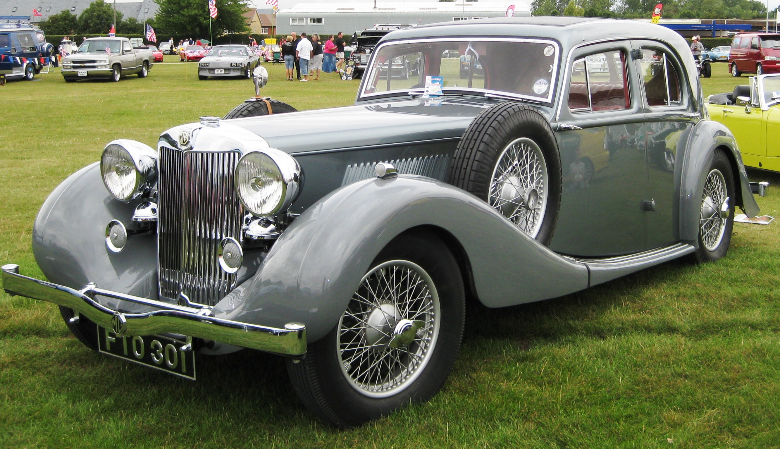 MG WA at Duxford Classic Car Show